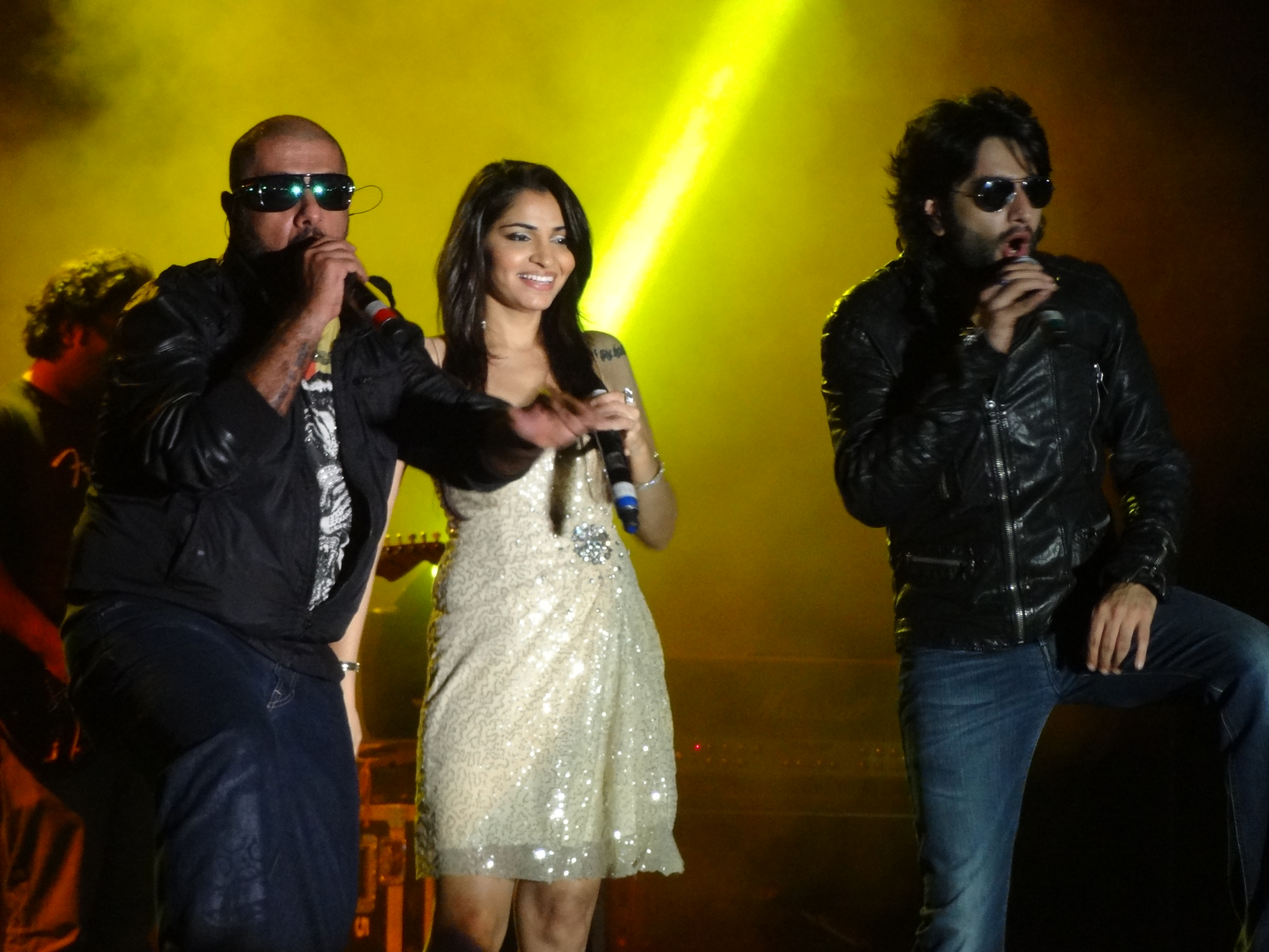 Vishal Dadlani, Shruti Pathak and Shekhar having live concert in Flare 2012 at PANDIT DEENDAYAL PETROLEUM UNIVERSITY, GANDHINAGAR.